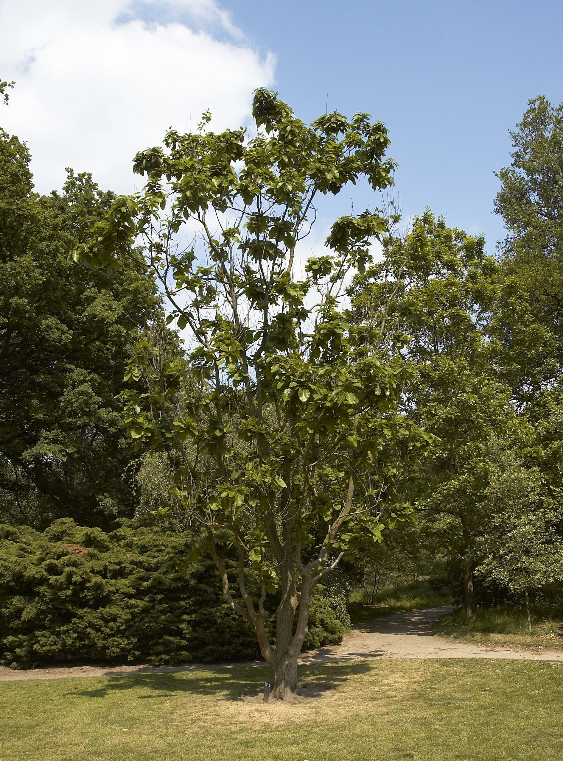 Quercus, aliena Blume, var. acuteserrata Maximowicz ex Wenzig. Arboretum Belmonte, Generaal Foulkesweg 94 of the university Wageningen, Netherlands